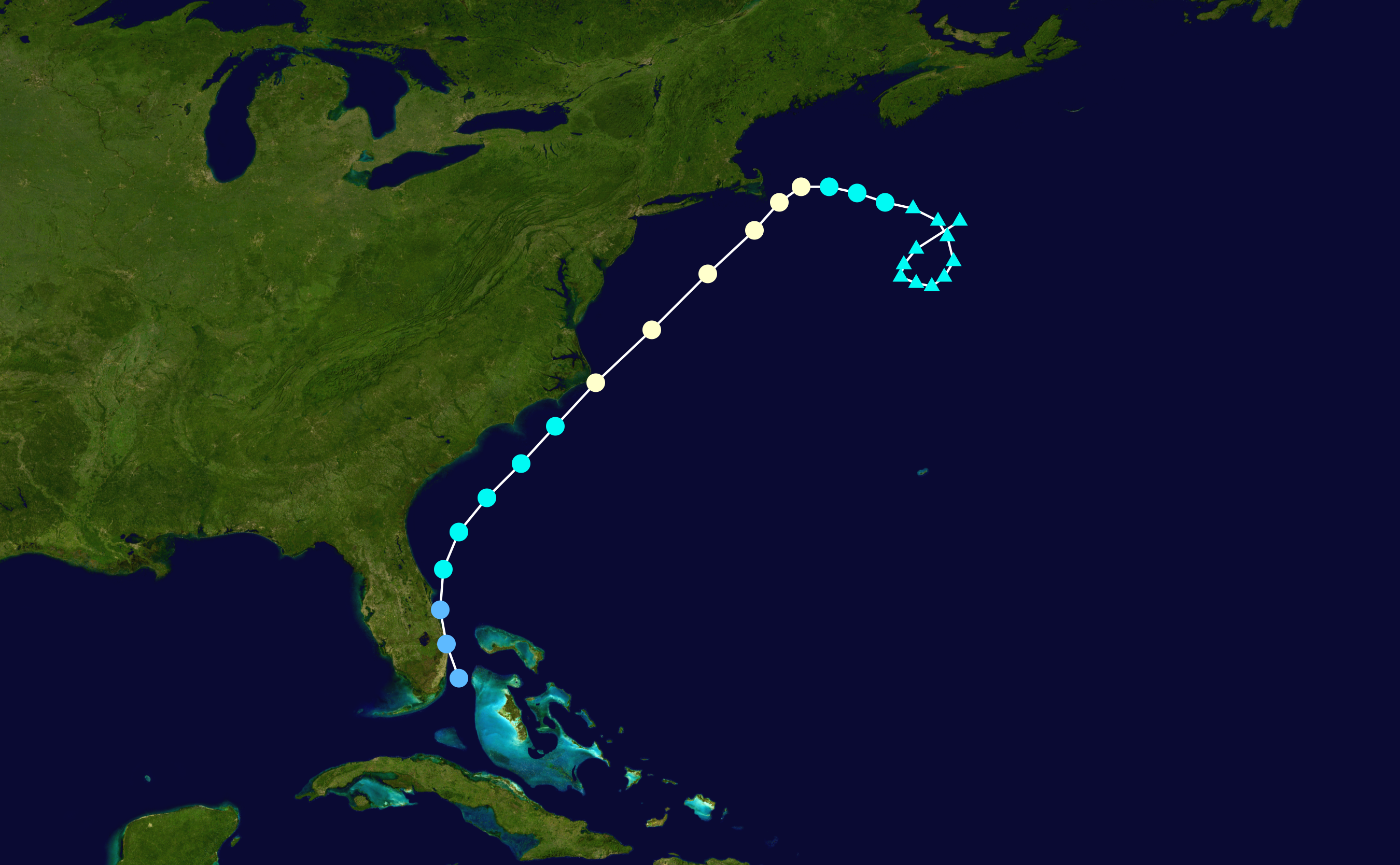 Track map of Hurricane Alma of the 1962 Atlantic hurricane season. The points show the location of the storm at 6-hour intervals. The colour represents the storm's maximum sustained wind speeds as classified in the Saffir–Simpson scale (see below), and the shape of the data points represent the nature of the storm, according to the legend below. Saffir–Simpson scale Tropical depression≤38 mph≤62 km/h Category 3111–129 mph178–208 km/h Tropical storm39–73 mph63–118 km/h Category 4130–156 mph209–251 km/h Category 174–95 mph119–153 km/h Category 5≥157 mph≥252 km/h Category 296–110 mph154–177 km/h Unknown Storm type Tropical cyclone Subtropical cyclone Extratropical cyclone / Remnant low / Tropical disturbance / Monsoon depression